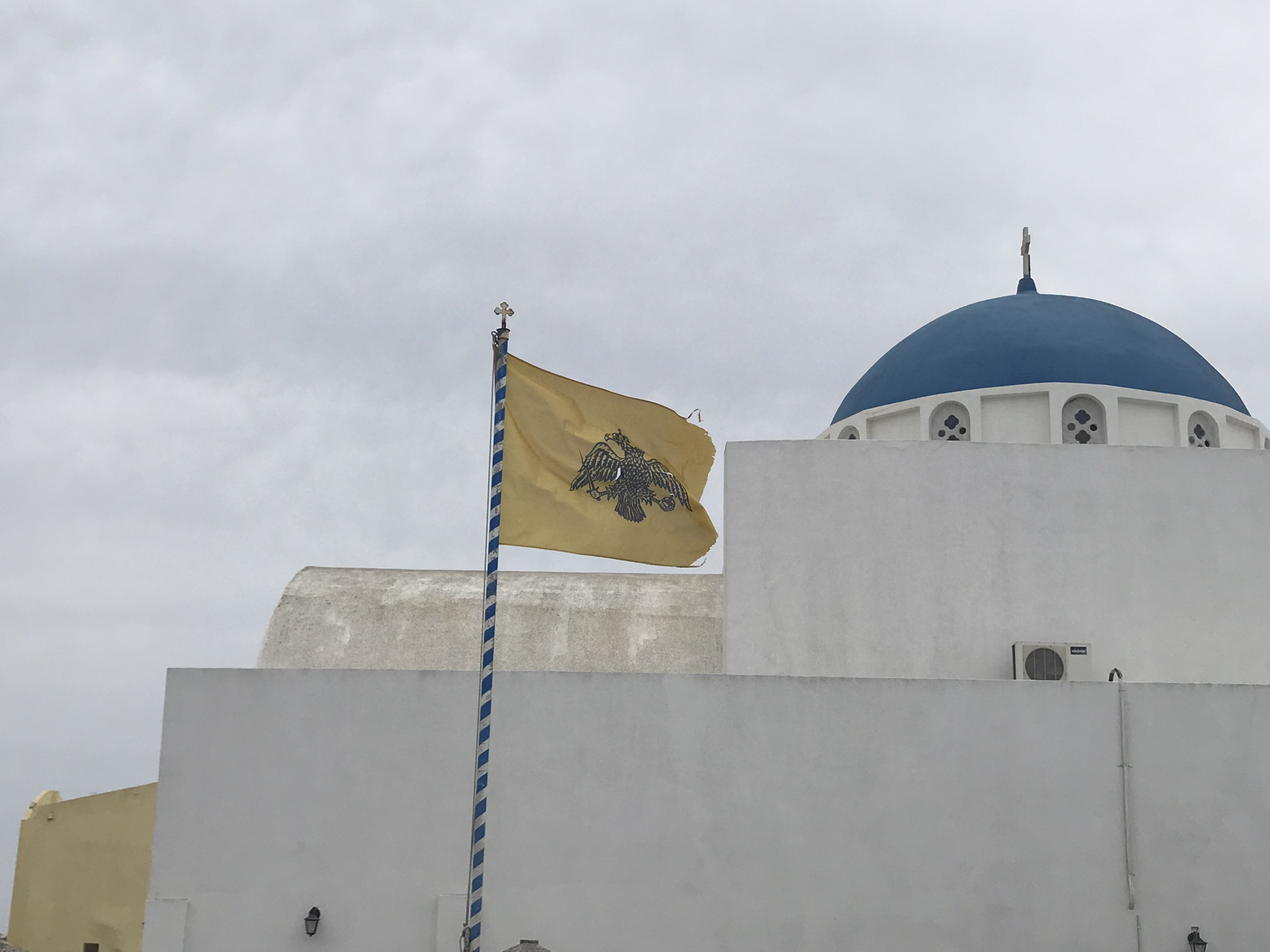 Bandeira da Igrexa ortodoxa grega, alzada en Santorini.